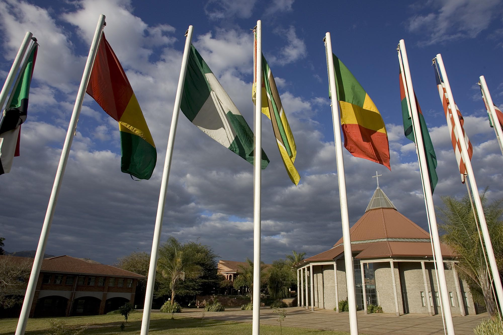 Africa University Chapel and Flags